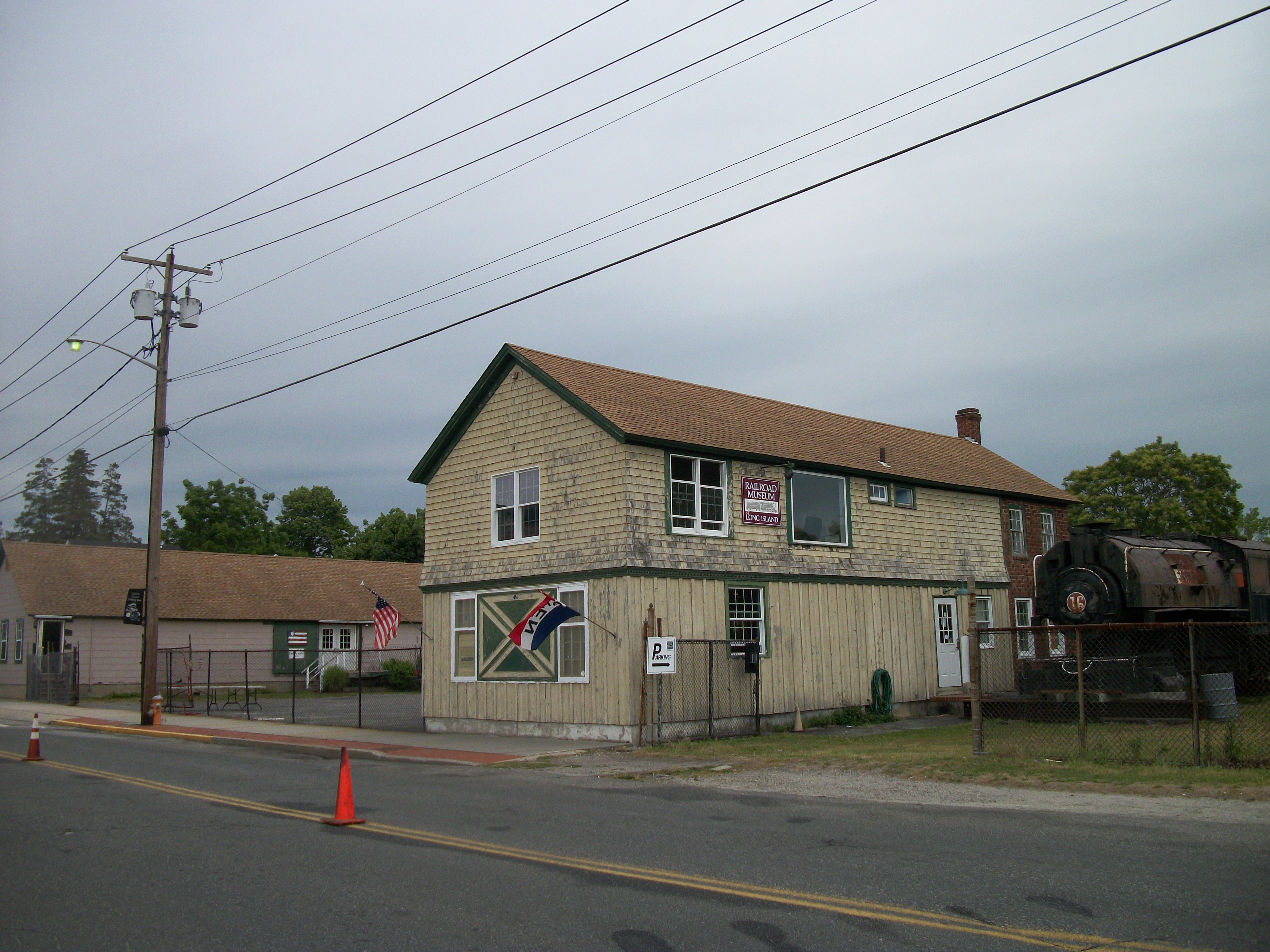 The western terminus of the Railroad Museum of Long Island in Riverhead, New York, which operates out of a former Nassau-Suffolk Lumber Supply dealership.